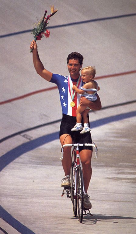 Mark Gorski and his son, Alex after winning the gold medal.